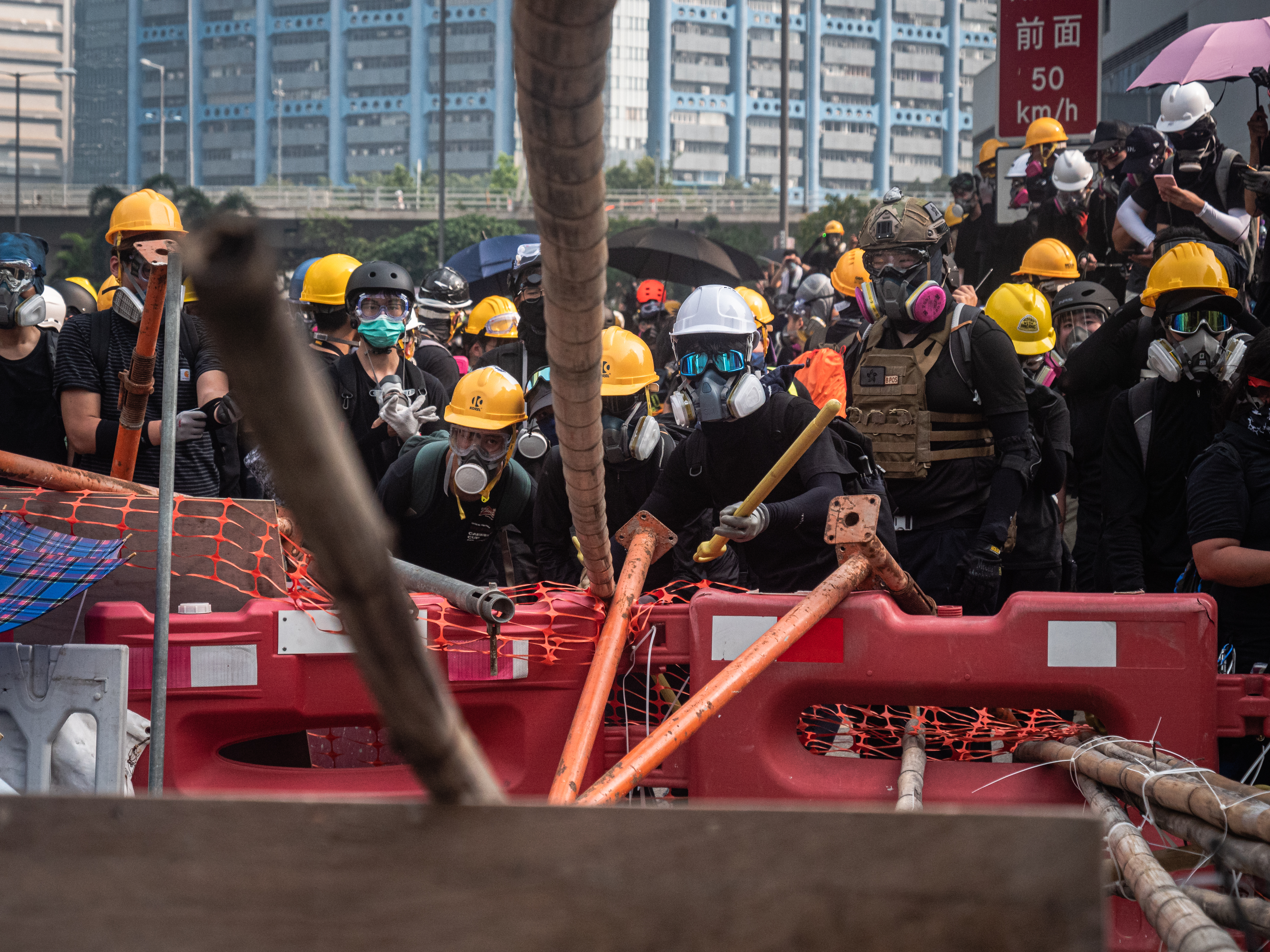 A part of the 2019 Hong Kong anti-extradition bill protests, the Kwun Tong March took place on August 24, 2019.